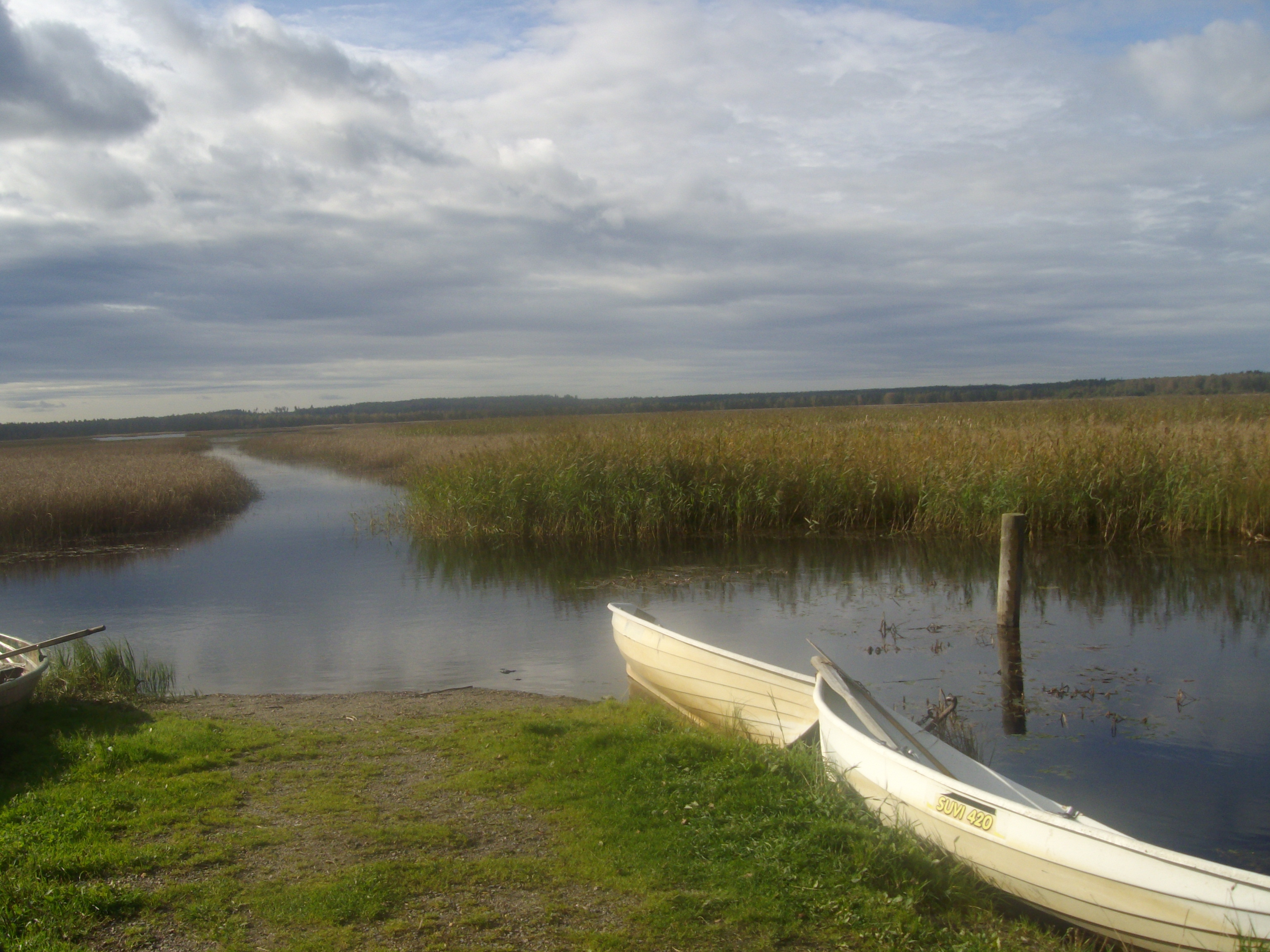 Lake Ridasjärvi at Hyvinkää, Finland. View from east shore to west.